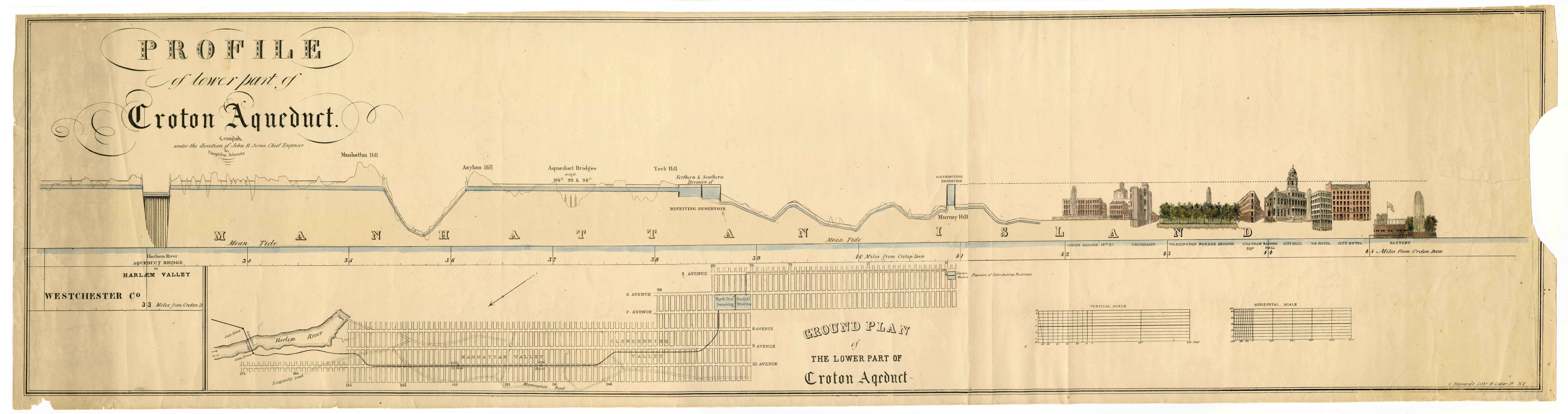 Profile of Lower Part of Croton Aqueduct. Ground Plan of the Lower Part of Croton Aqueduct. Compiled under the direction of John B. Jervis, Chief Engineer by Theophilus Schramke. Dimensions given. Labels shown. Streets labeled. Vertical and Horizontal Scale shown. Condition: good; part of right end missing. Via the John B. Jervis